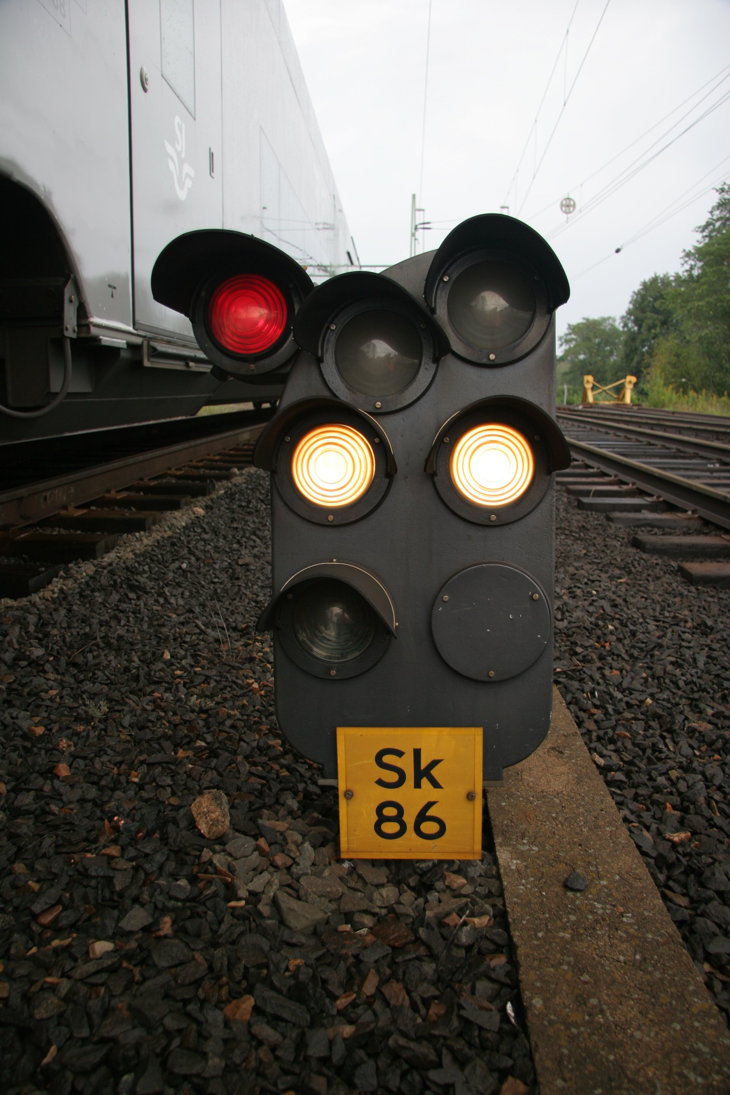 Swedish railway signal